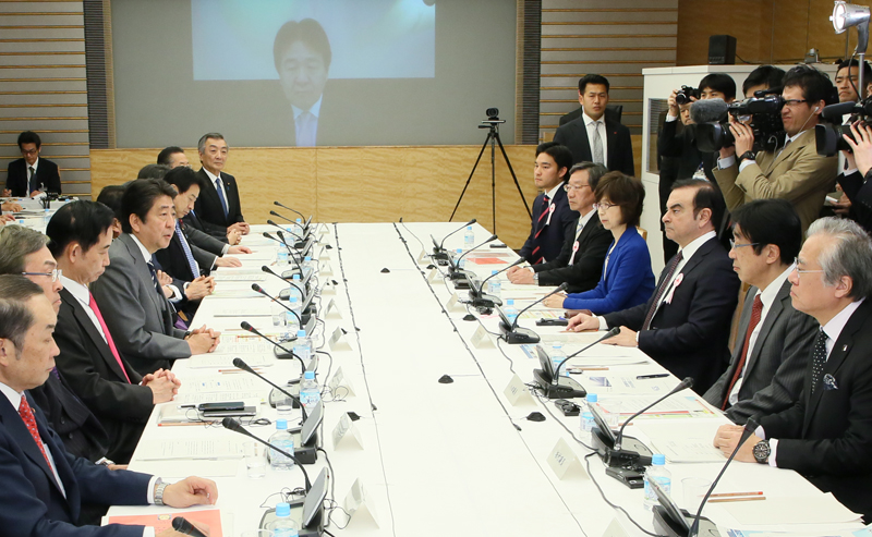 Shinzō Abe, Prime Minister, attended a meeting of the Council on National Strategic Special Zones, Cabinet Office with Kōzō Yamamoto, Minister of State for Regional Revitalization, at the Prime Minister's Official Residence in Chiyoda Ward, Tōkyō Metropolis on February 21, 2017. Abe talked with Carlos Ghosn, Chairman of Nissan Motor Co., Ltd., Tomoko Namba, Chairman of DeNA Co., Ltd., Kenzō Nonami, Chief Executive Officer of the Autonomous Control Systems Laboratory Ltd., and Doga Makiura, Adviser of Semboku City.